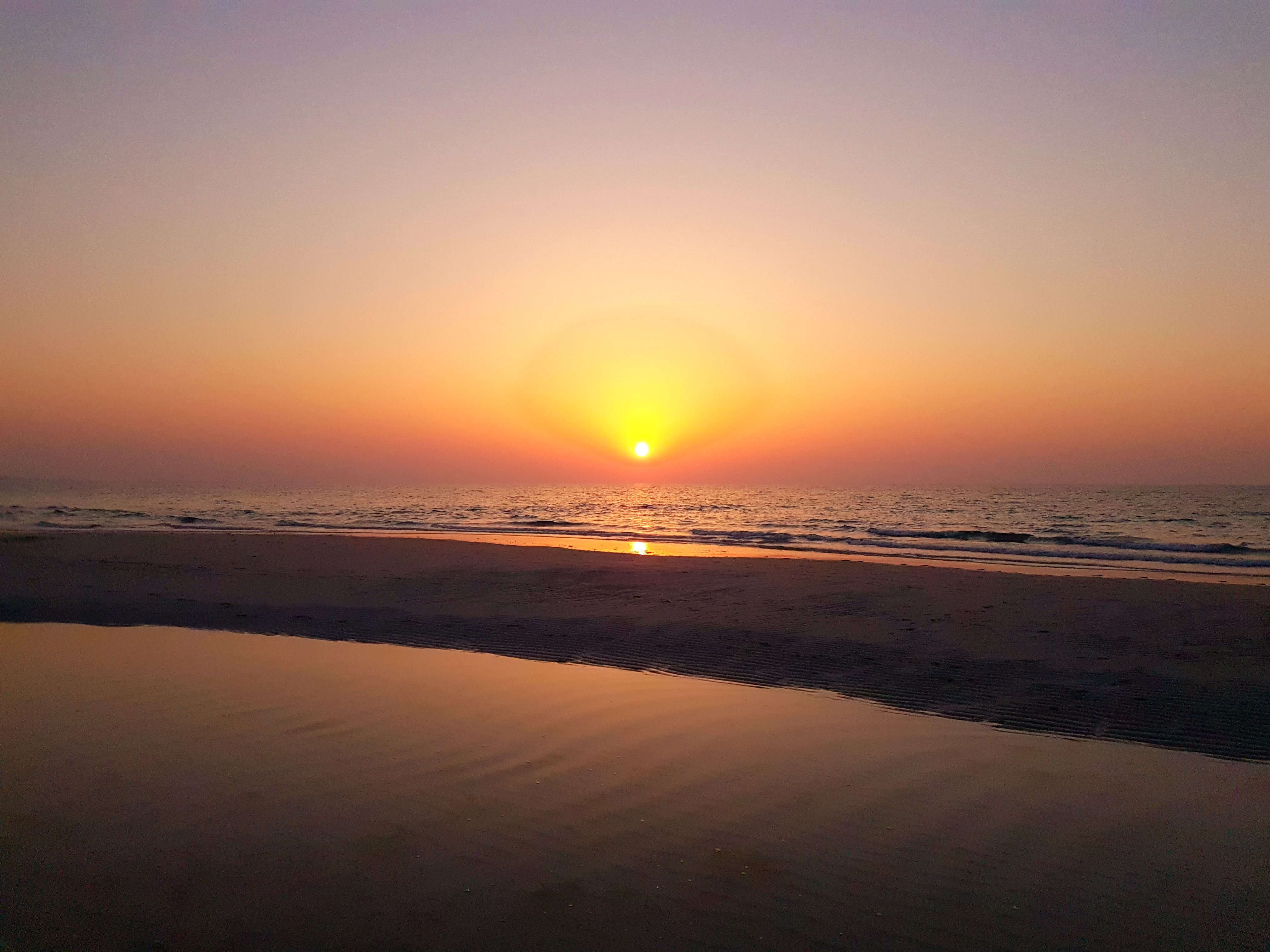 Photo taken on Saadiyat Beach, Abu Dhabi. UAE at sunset